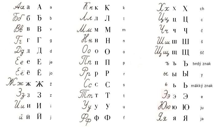 cyrilic alphabet with slovak equivalents